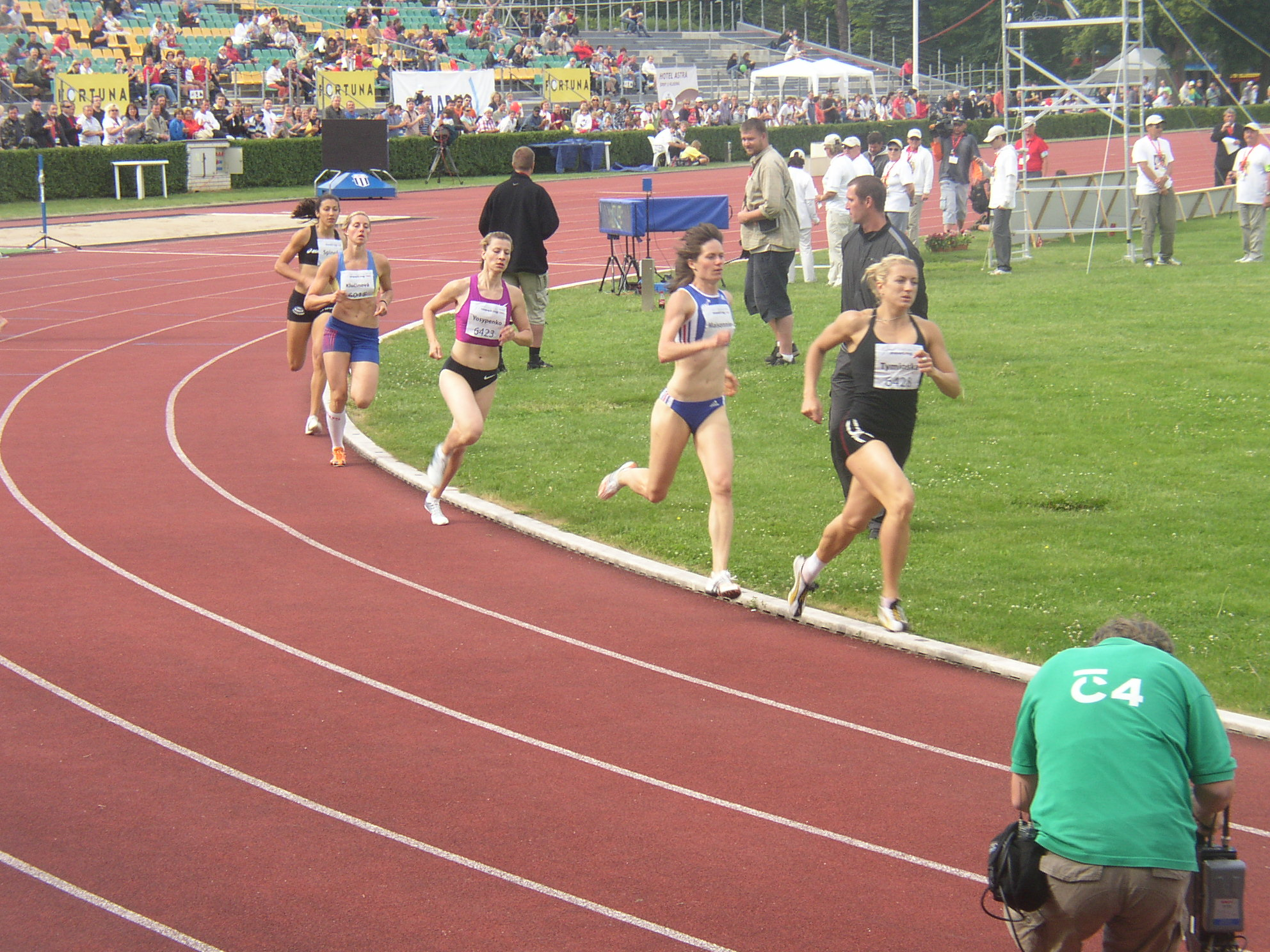 Athletes running into last lap in second heat of women's 800m at 4th edition of the TNT - Fortuna Meeting (IAAF World Combined Events Challenge Meeting, Sletiště Stadium, Kladno, Czech Republic, 16 June 2010, 17:09). right to left: Karolina Tymińska (POL) Blandine Maisonnier (FRA) Lyudmila Yosypenko (UKR) Eliška Klučinová (CZE) Vanessa Spinola (BRA) Eliška Klučinová finished this race at 2:15,85 min and with 6268 points in total equalized Czech national record in heptathlon (set by Zuzana Lajbnerová in 1988) and secured the overall victory. Klučinová's personal best up to this moment was 6015 points.